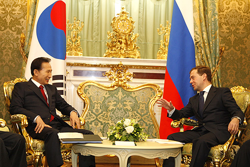 GRAND KREMLIN PALACE, MOSCOW. With President of the Republic of Korea Lee Myung-bak.